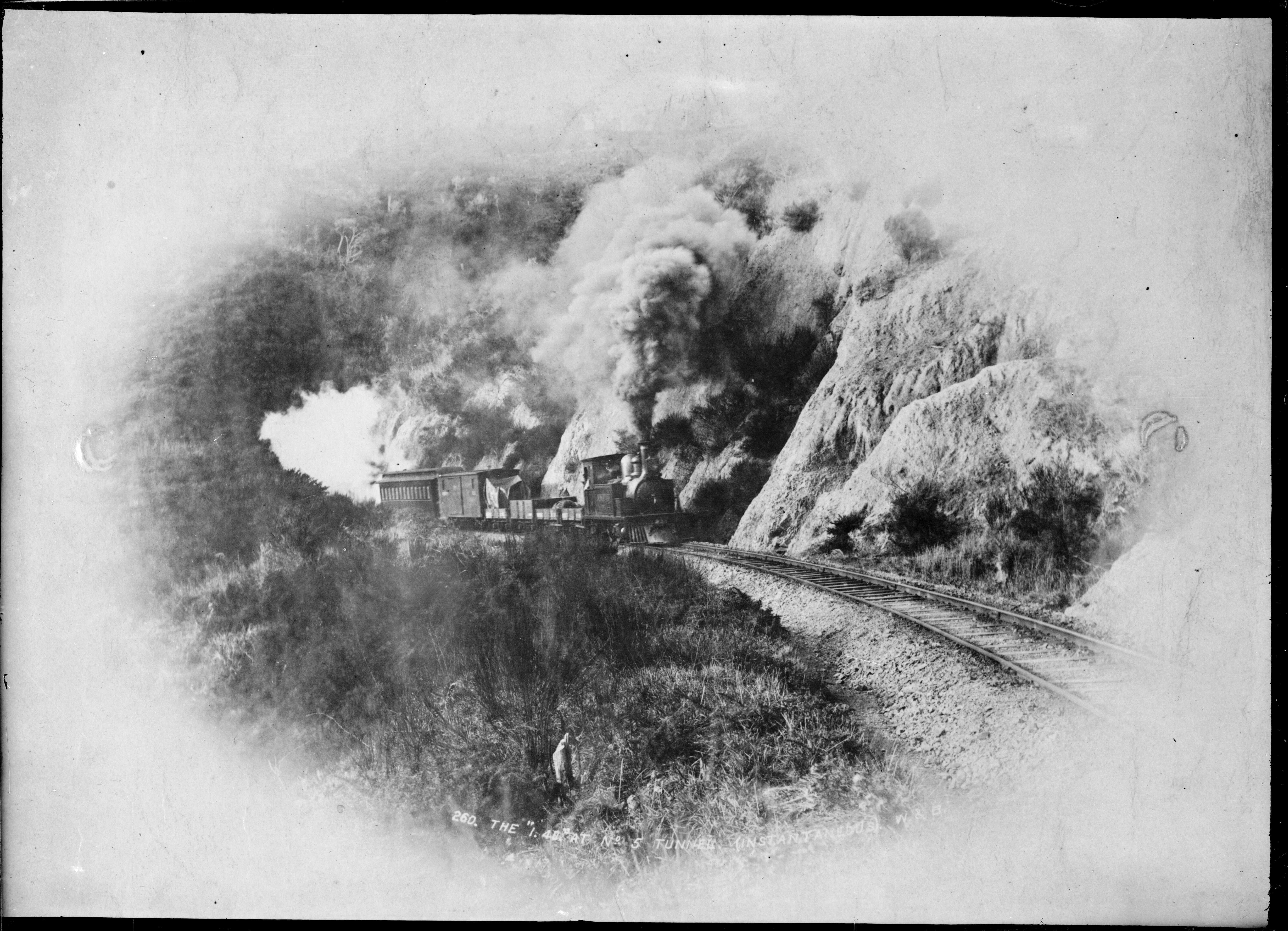 Wellington and Manawatu Railway Company Wh class locomotive leaving Wadestown tunnel. Photograph taken ca 1900s by Albert Percy Godber.